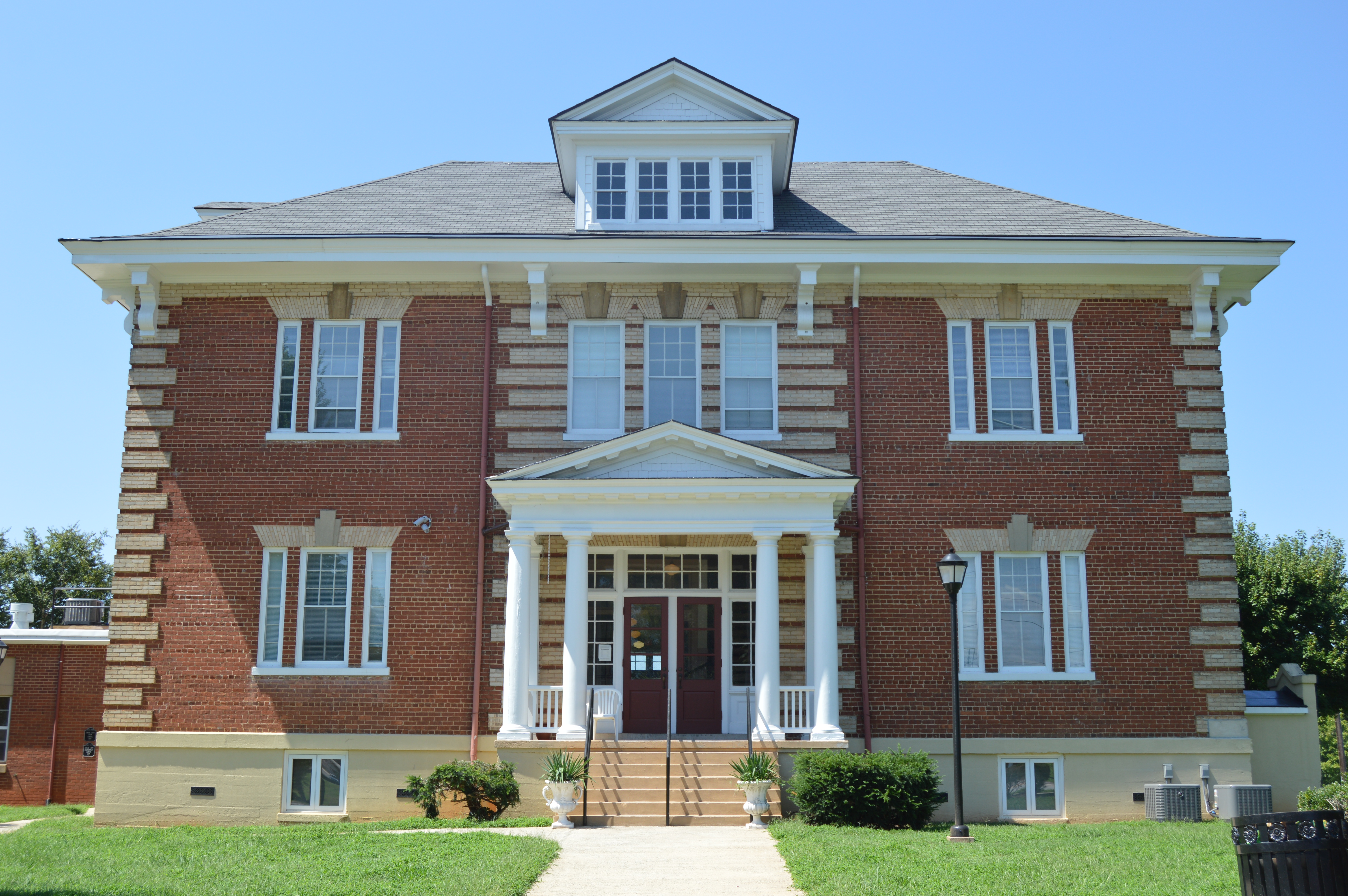 Front of the older section of the former Chase City High School (now apartments), located at 132 Endly Street in Chase City, Virginia, United States. Built in 1908, it is listed on the National Register of Historic Places.